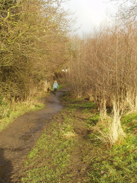 Meanwood Valley Trail. Meanwood Valley Trail at the north end of Meanwood Park near the Leeds Ring Road, on a muddy New Years Day